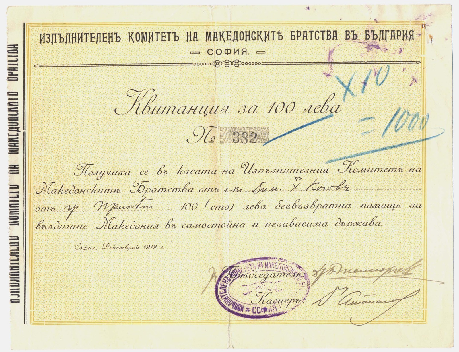 Receit of the UMEO to Dimitar Hadzhikochov